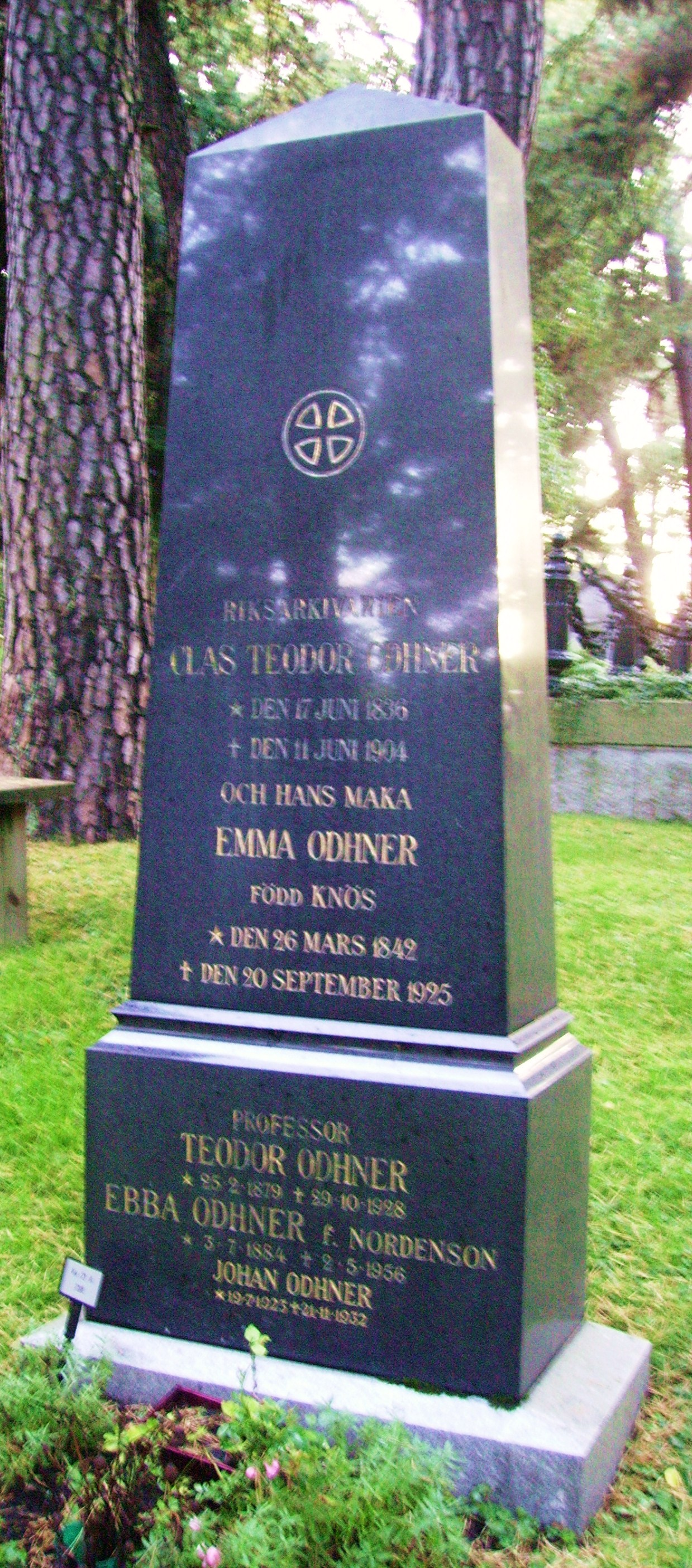 Picture of Theodor Odhner's grave at Norra begravningsplatsen in Stockholm.